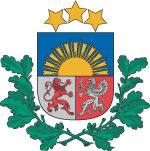 coat of arms Latvia